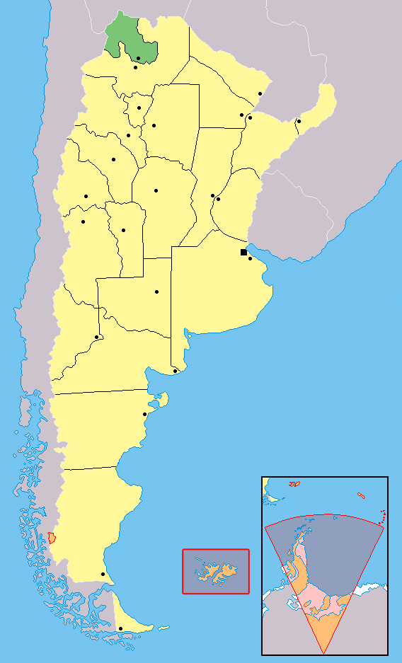 Map of Jujuy Province - in extreme northwestern Argentina.